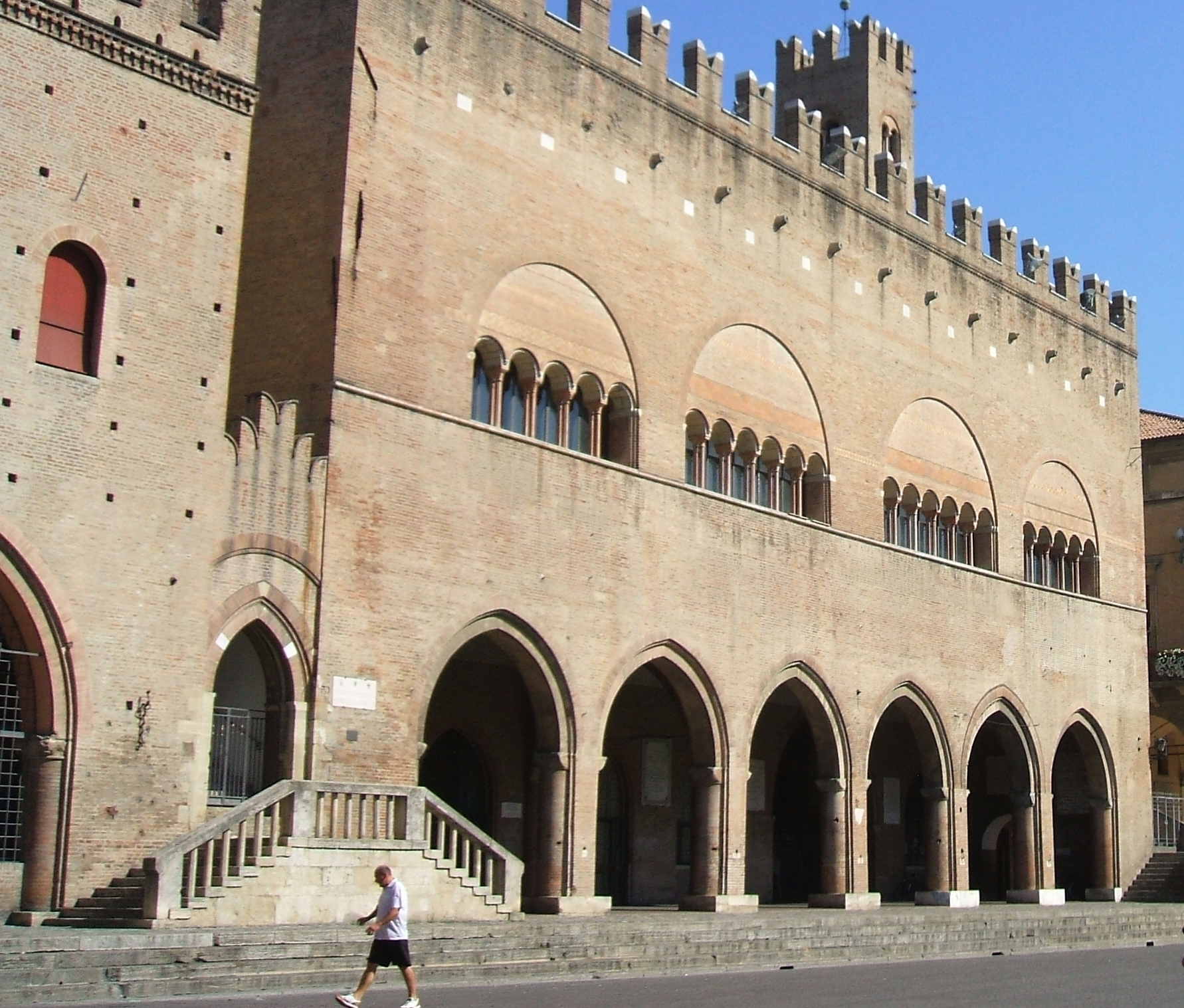 Arengo Palace in Rimini